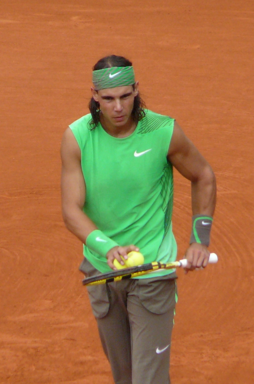 Rafael Nadal against Nicolás Almagro in the 2008 French Open quarterfinals